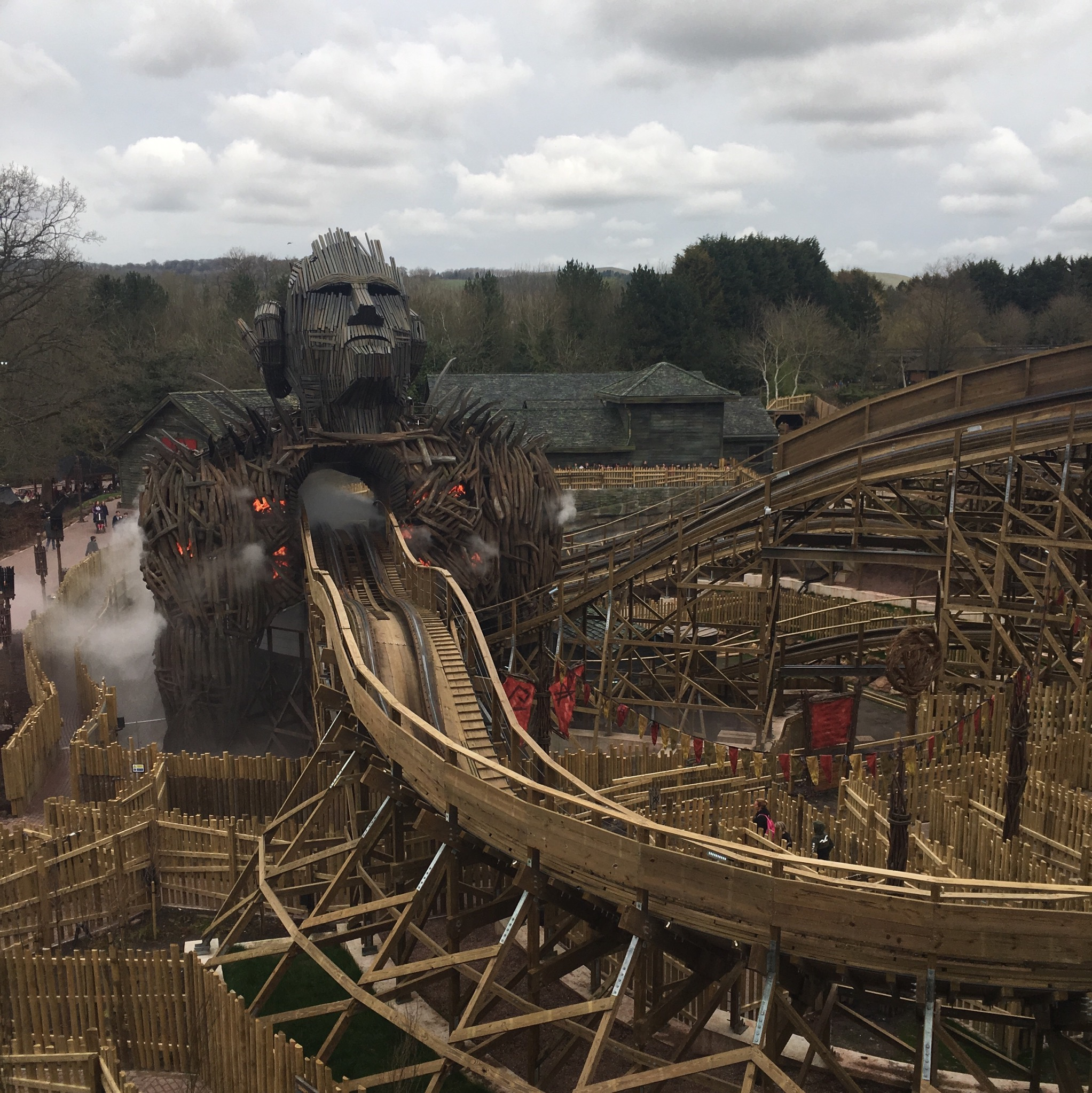 Alton towers Wickerman rollercoaster